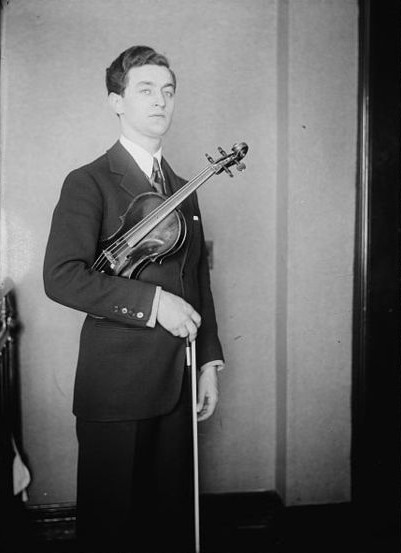 Samuel Dushkin (1891 — 1976), Polish-born, American violinist